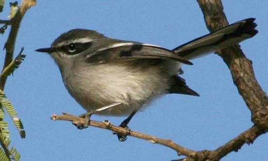 An active little bird and altitudinal migrant that comes down to KwaZulu-Natal from Lesotho in winter. This shot was taken at Spioenkop Nature Reserve, KwaZulu-Natal, South Africa.